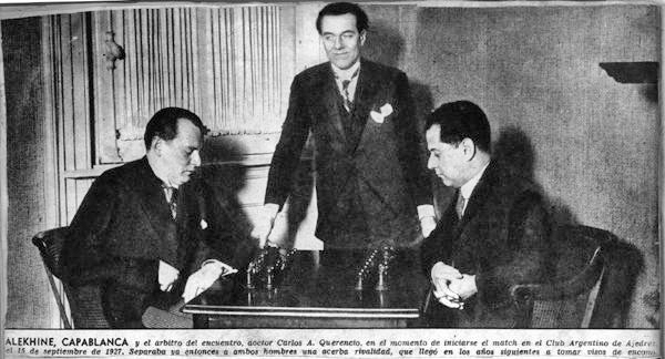 Left to right: Alexander Alekhine, arbiter Dr. Carlos Augusto Querencio and José Raúl Capablanca during World Chess Championship in Buenos Aires, 1927